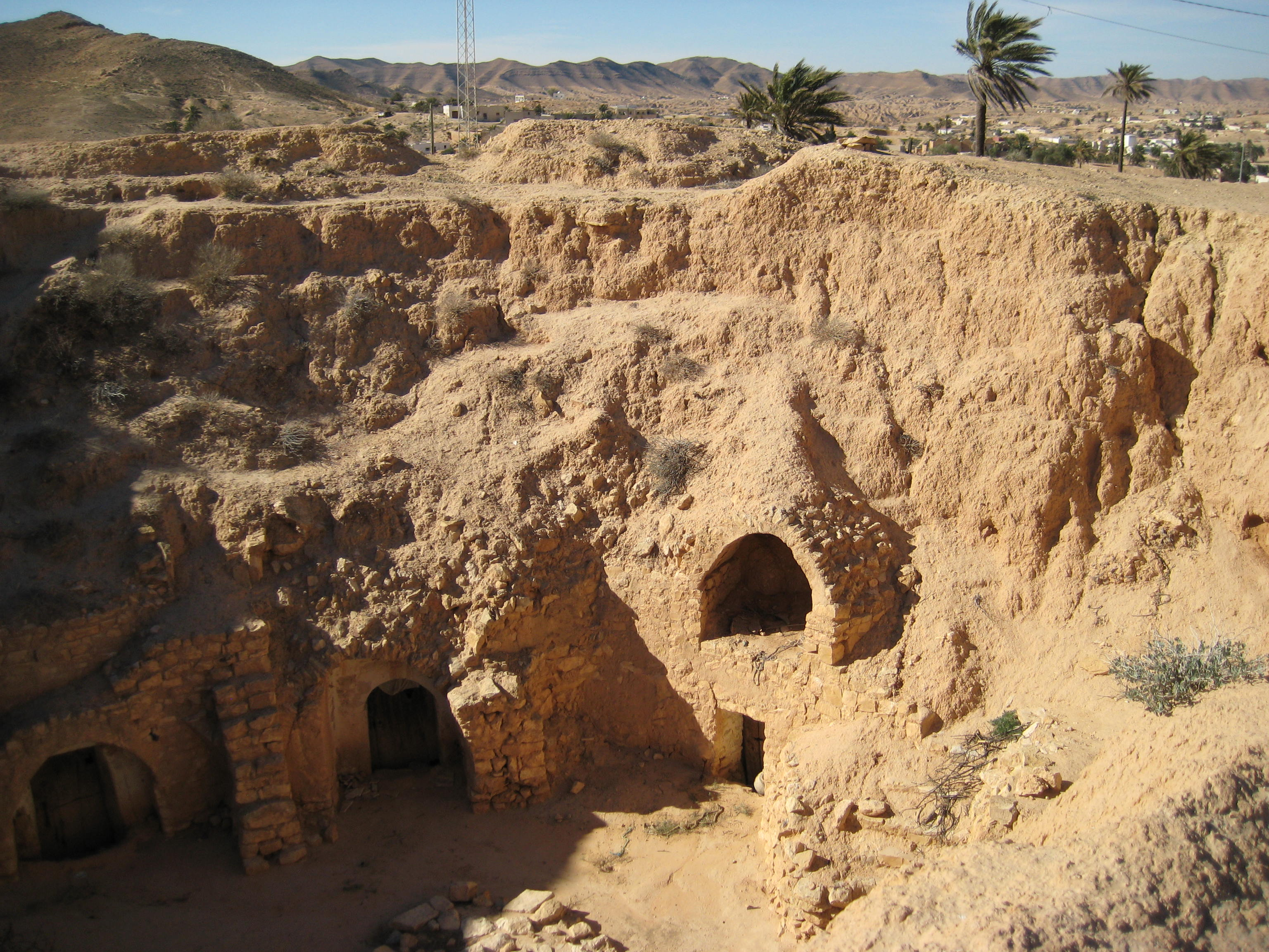 Cave dwelling in Matmâta.